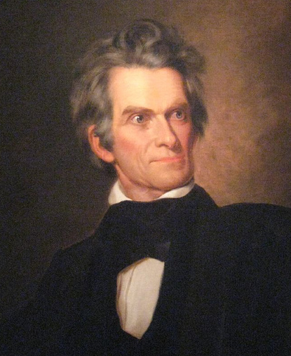 Portrait of John C. Calhoun